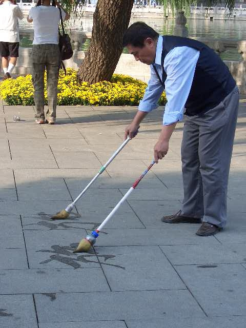 This man is practising calligraphy with giant brushes and water at Beihai Park in Beijing, China. 中文（中国大陆）: 在中国北京北海公园，老人正用大毛笔和水练写书法 中文（台灣）: 在中國北京北海公園，老人正用大毛筆和水練寫書法